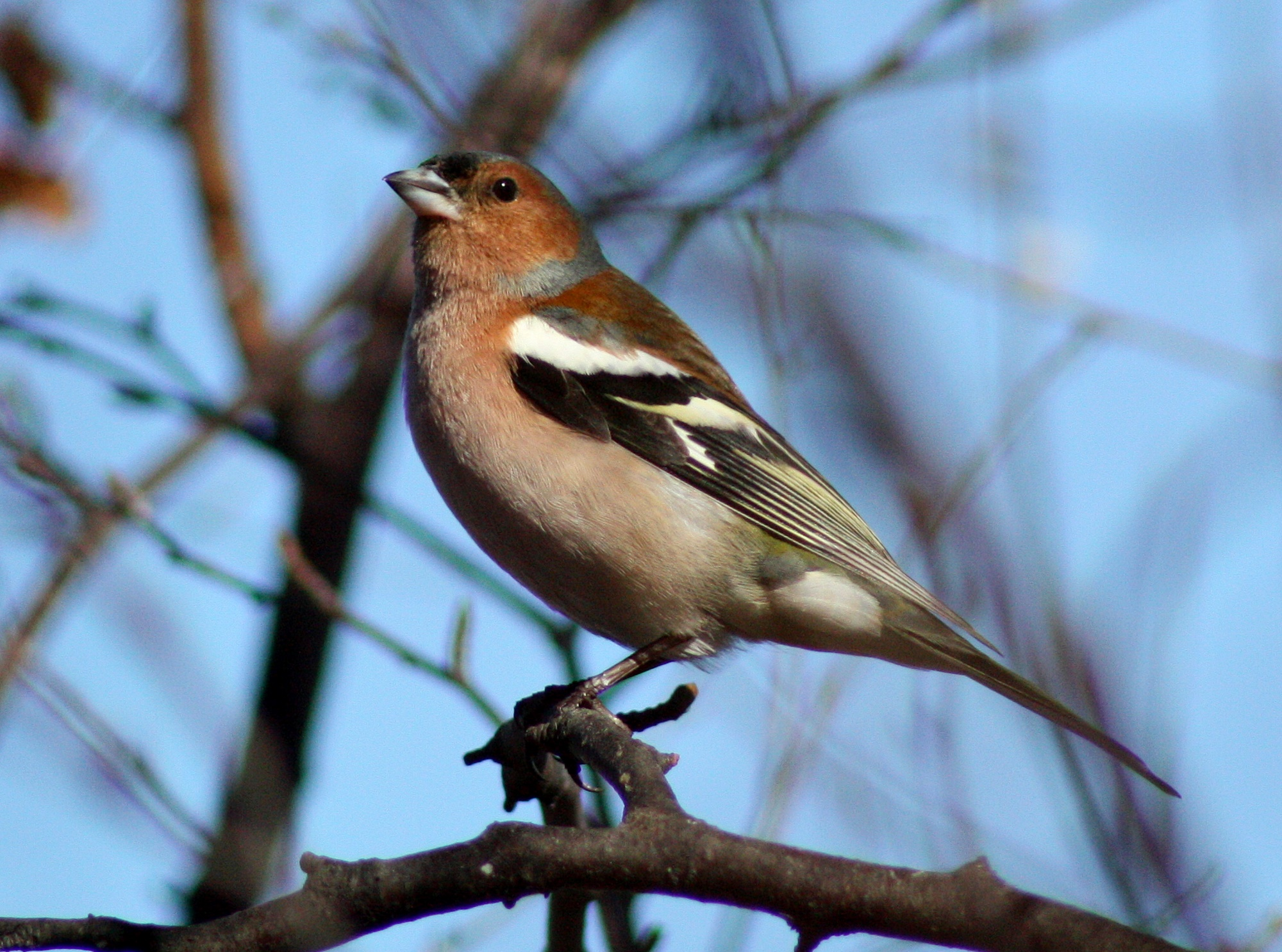 Chaffinch (Fringilla coelebs) in Hollihaka Park, Oulu.